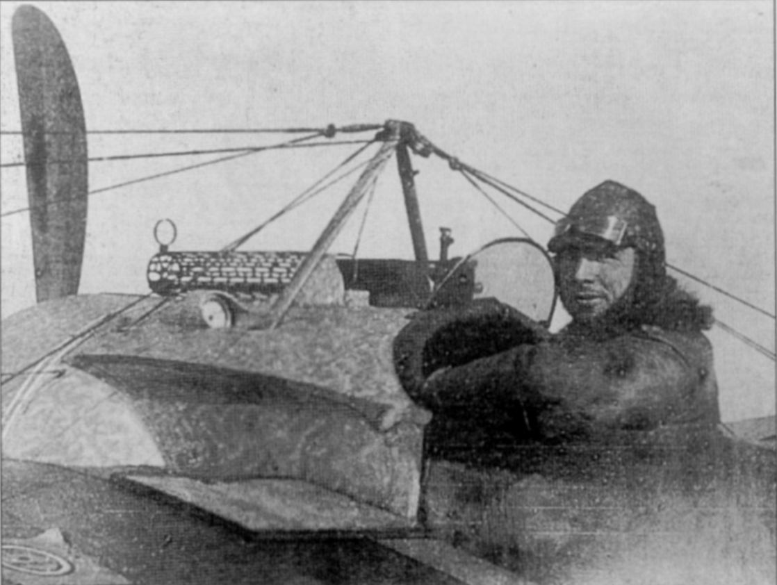 Max Immelmann's Fokker E.II (most likely E.II 37/15) as photographed on October 26th 1915 following Immelmann's fifth victory, clearly showing the metal soffit surface (one of two) along the fuselage structure's upper longeron front end, required to accommodate the larger diameter Oberursel U.I nine-cylinder rotary engine and larger diameter cowl .